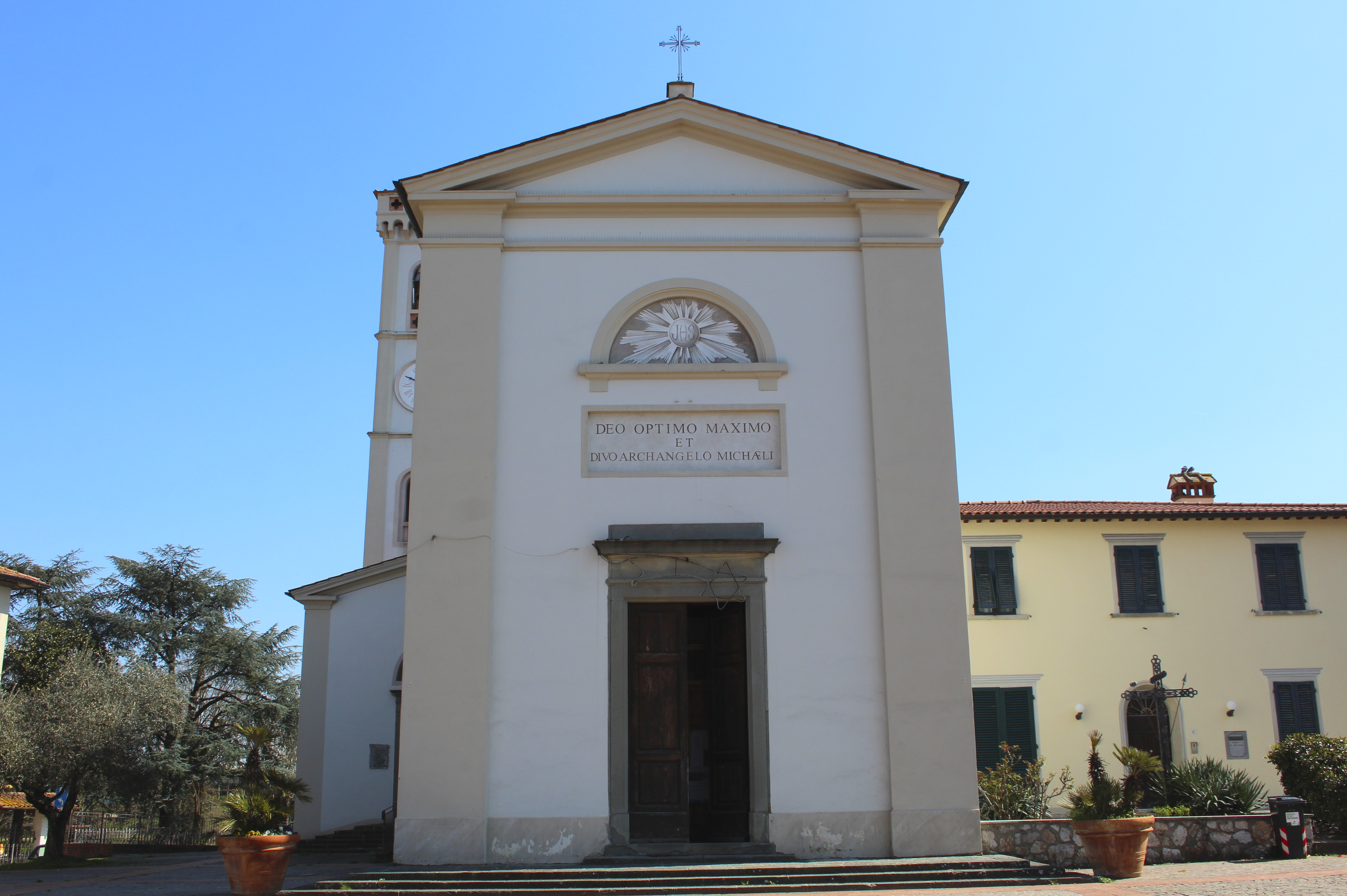 Church San Michele Arcangelo, Staffoli, hamlet of Santa Croce sull'Arno, Province of Pisa, Tuscany, Italy